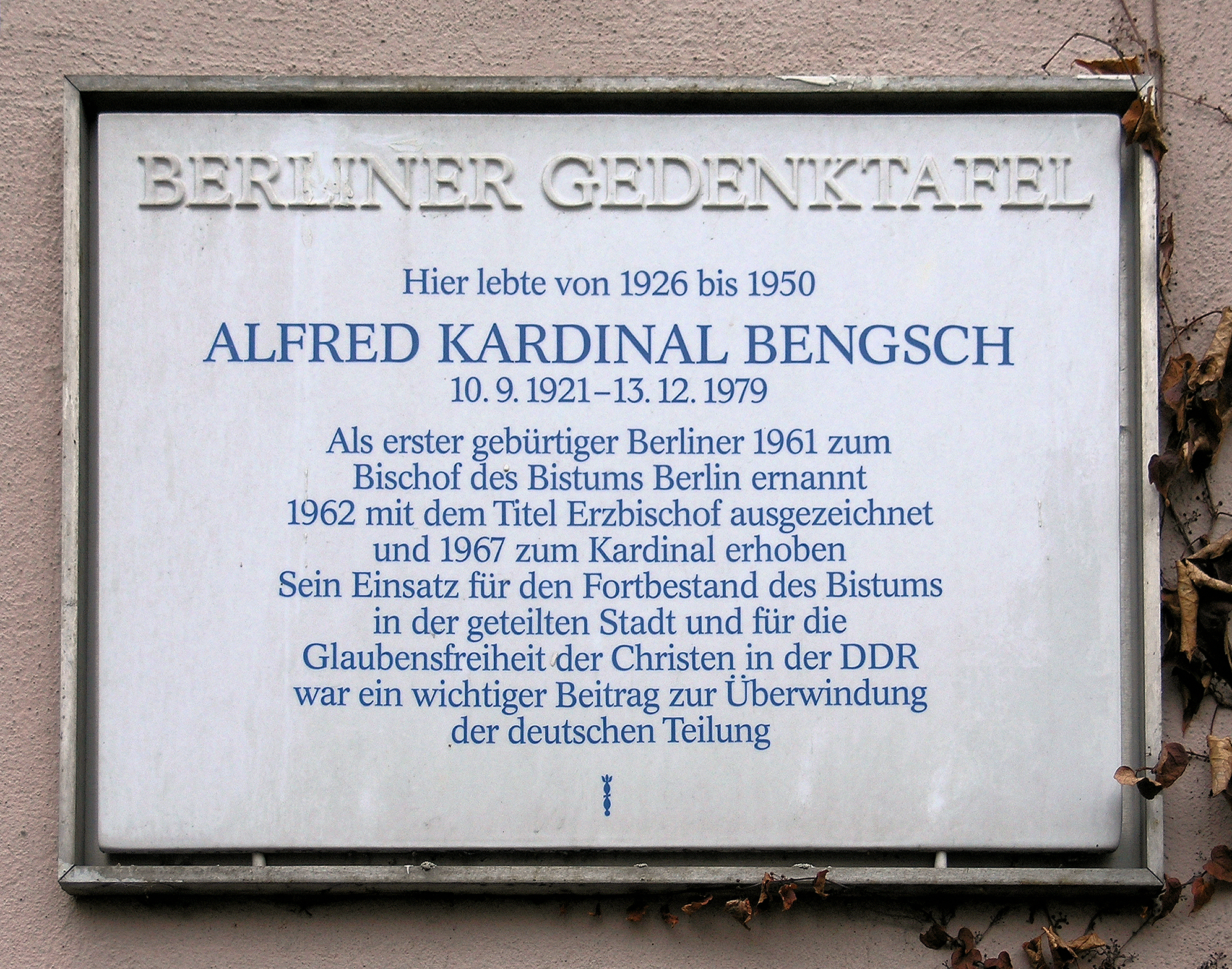 Berlin memorial plaque, Alfred Kardinal Bengsch, Tempelhofer Weg 26, Berlin-Schöneberg, Germany Koordinate:52°28′38″N 13°21′35″E / 52.47722°N 13.35972°E